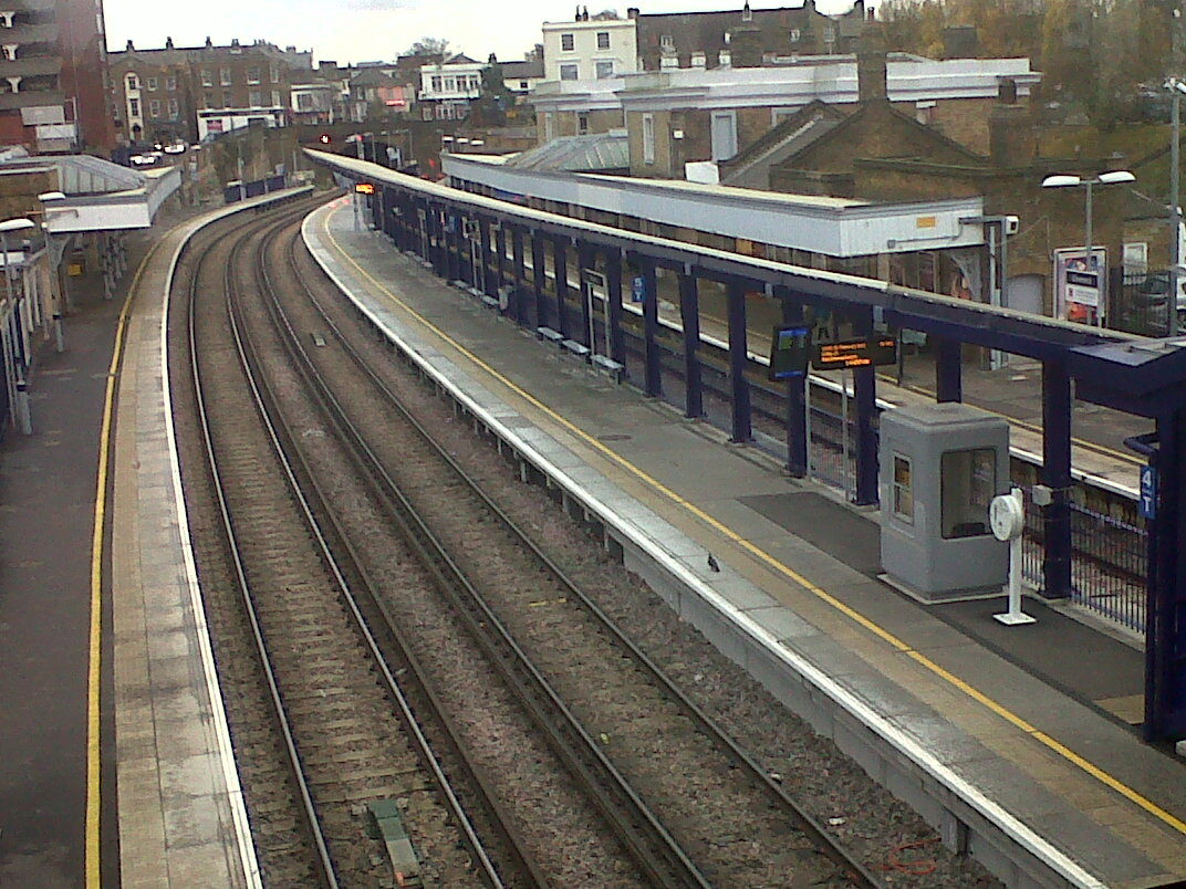 Coast bound view of Gravesend station from the new footbridge.